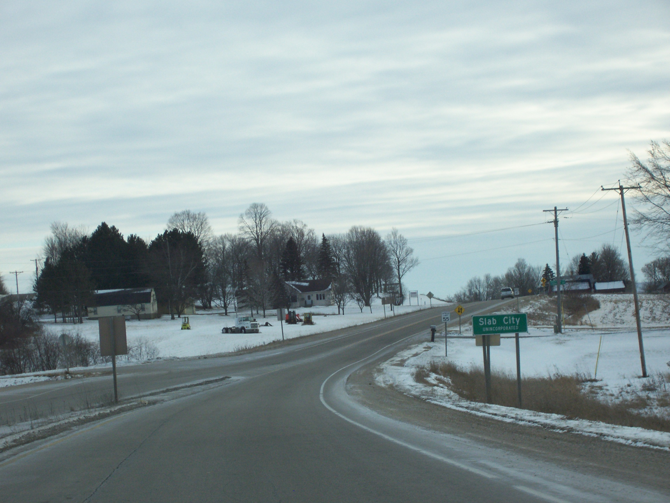 The Wisconsin sign in Slab City, Wisconsin, USA. Looking south on Wisconsin Highway 47. Taken February 11, 2007 by myself.